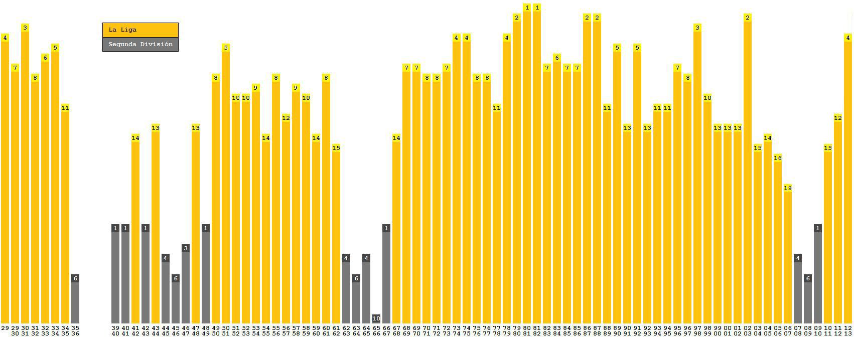 Spanish league positions of Real Sociedad